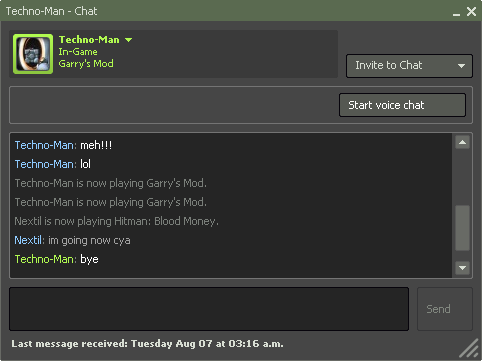 Steam chat window. English interface.